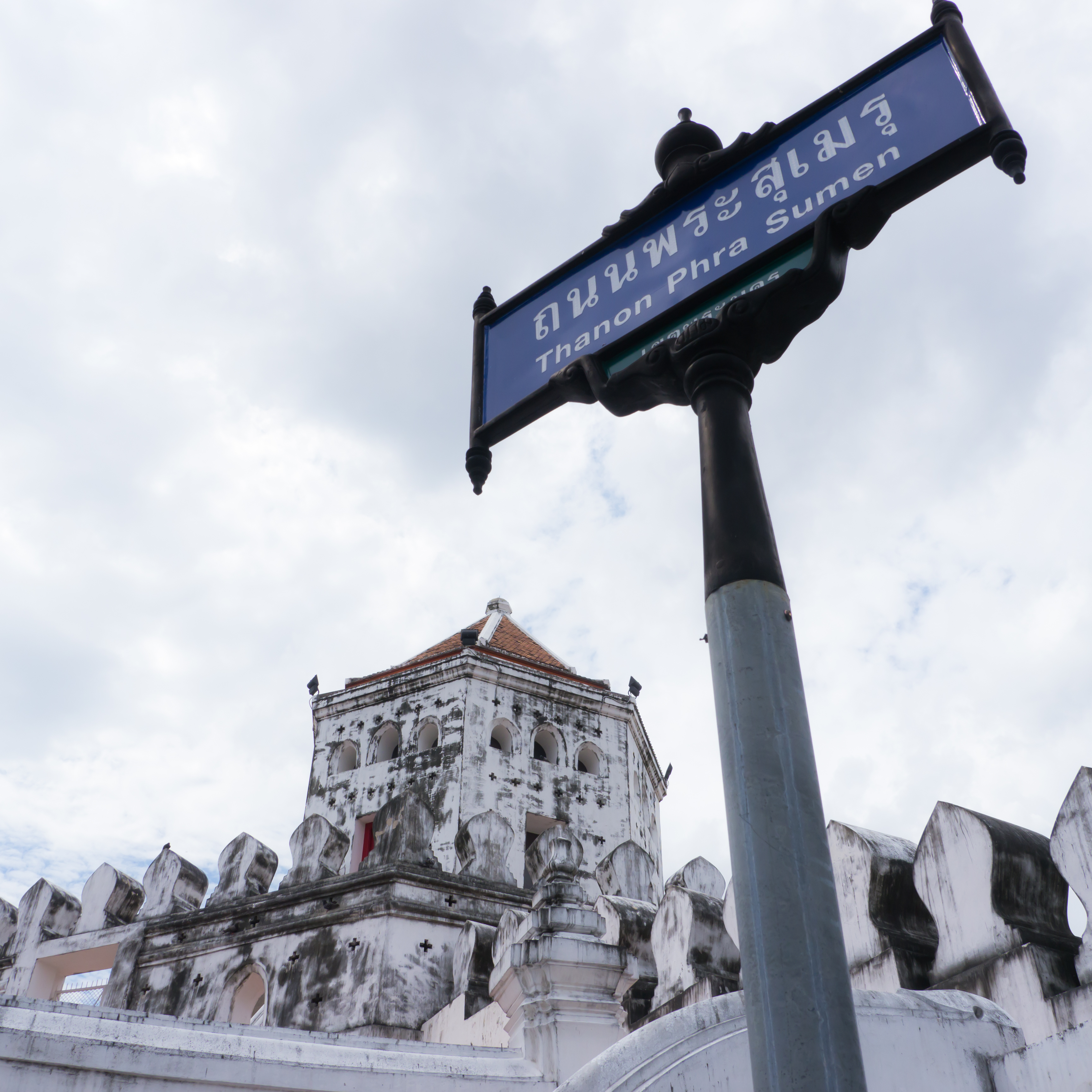 Phra Sumen Fort, Phra Nakhon, Bangkok